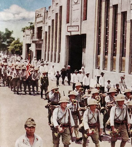 Japanese troop in Sai Gon, 1940